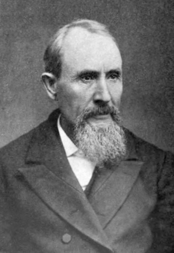 John Tabor Alsap, Arizona Territorial pioneer and first Mayor of Phoenix (1881)